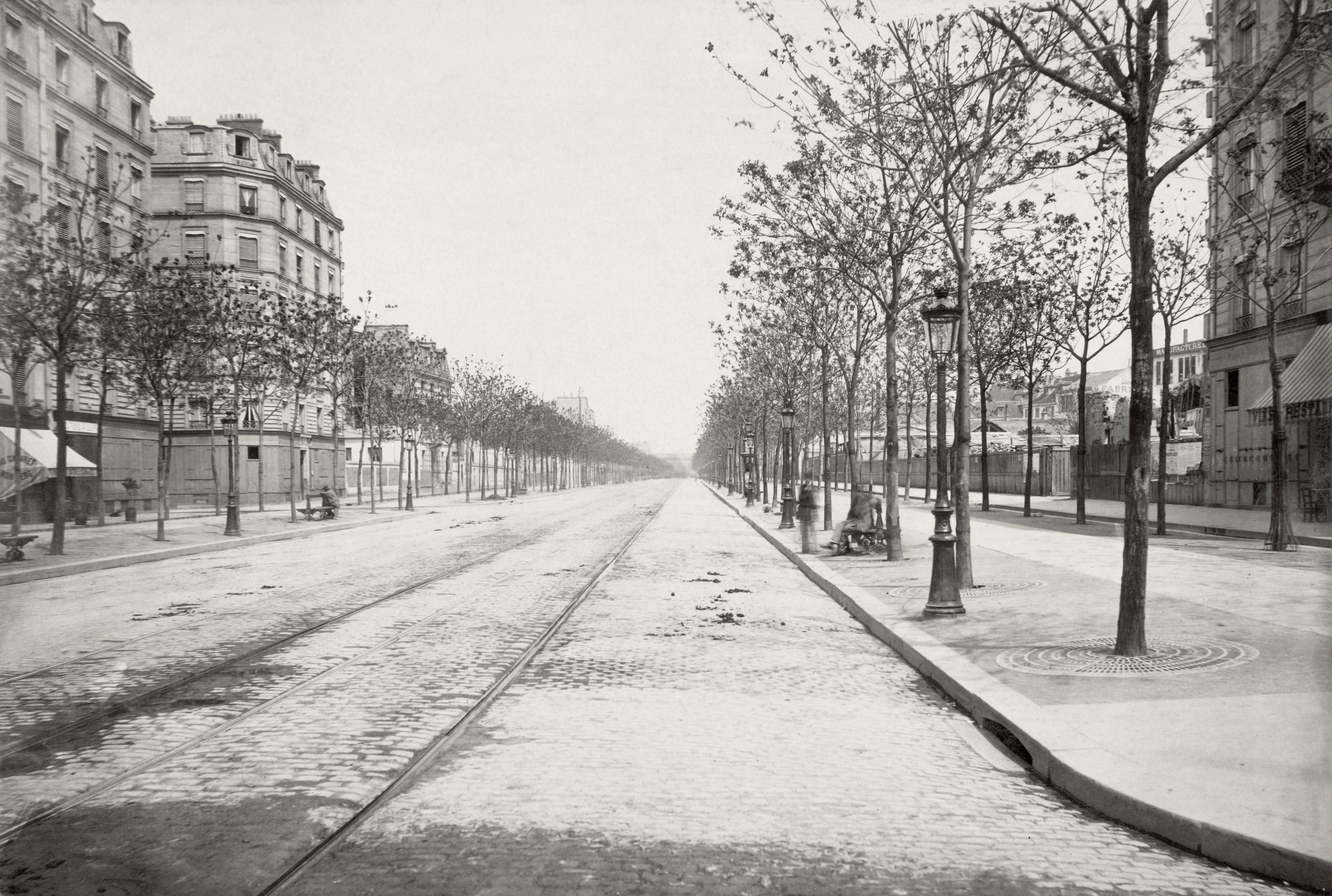 Looking along tree lined avenue, tram lines running along street